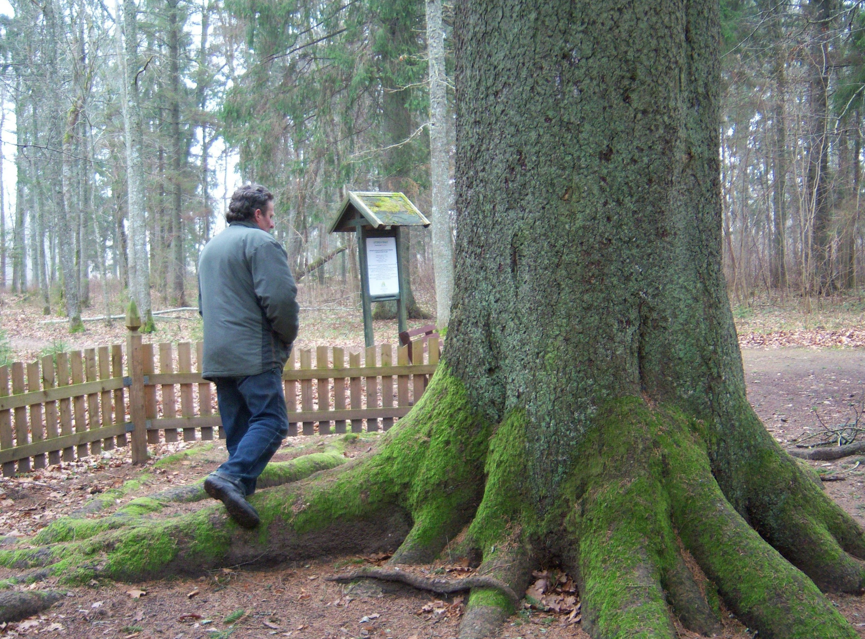 Renavas spruce, Mažeikiai District, Lithuania